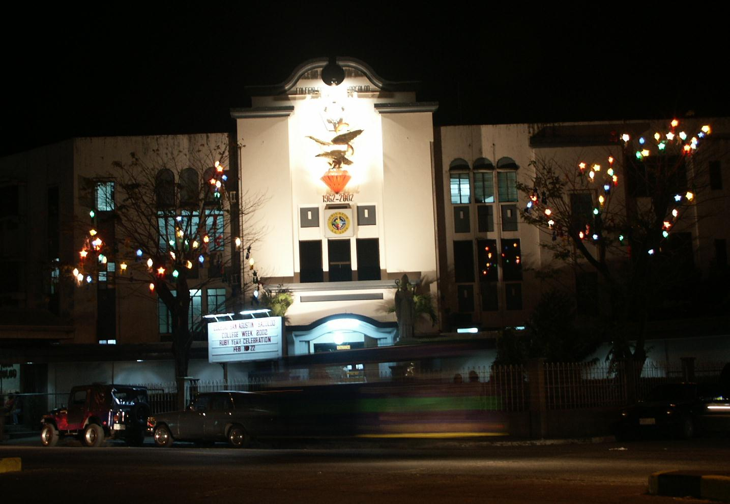 A night-time view of the facade of the Colegio San Agustin-Bacolod Administration Building taken in 2002, during the College's 40th Year (Ruby) Anniversary.